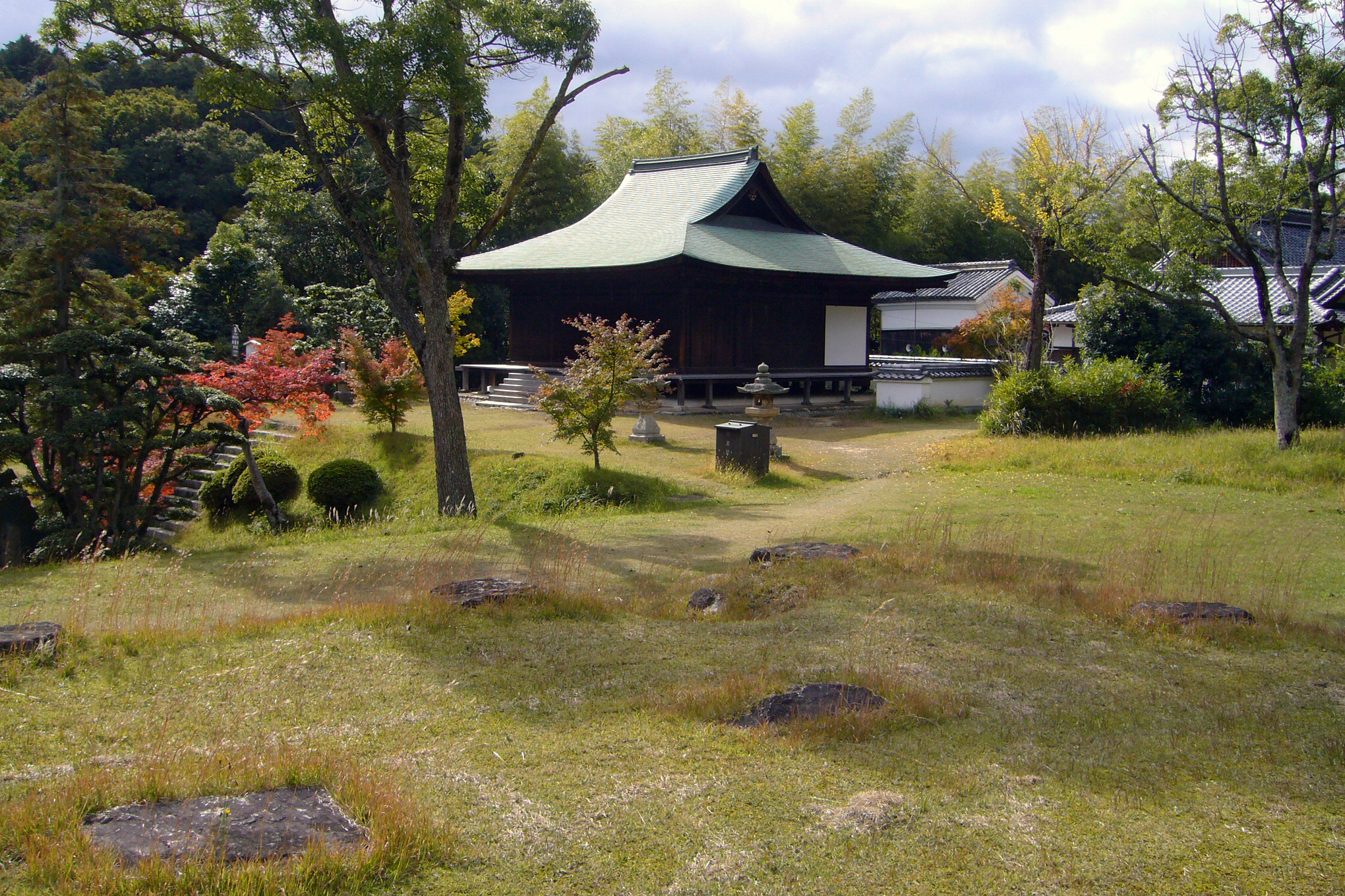 Nyoiji in Kobe, Hyogo prefecture, Japan